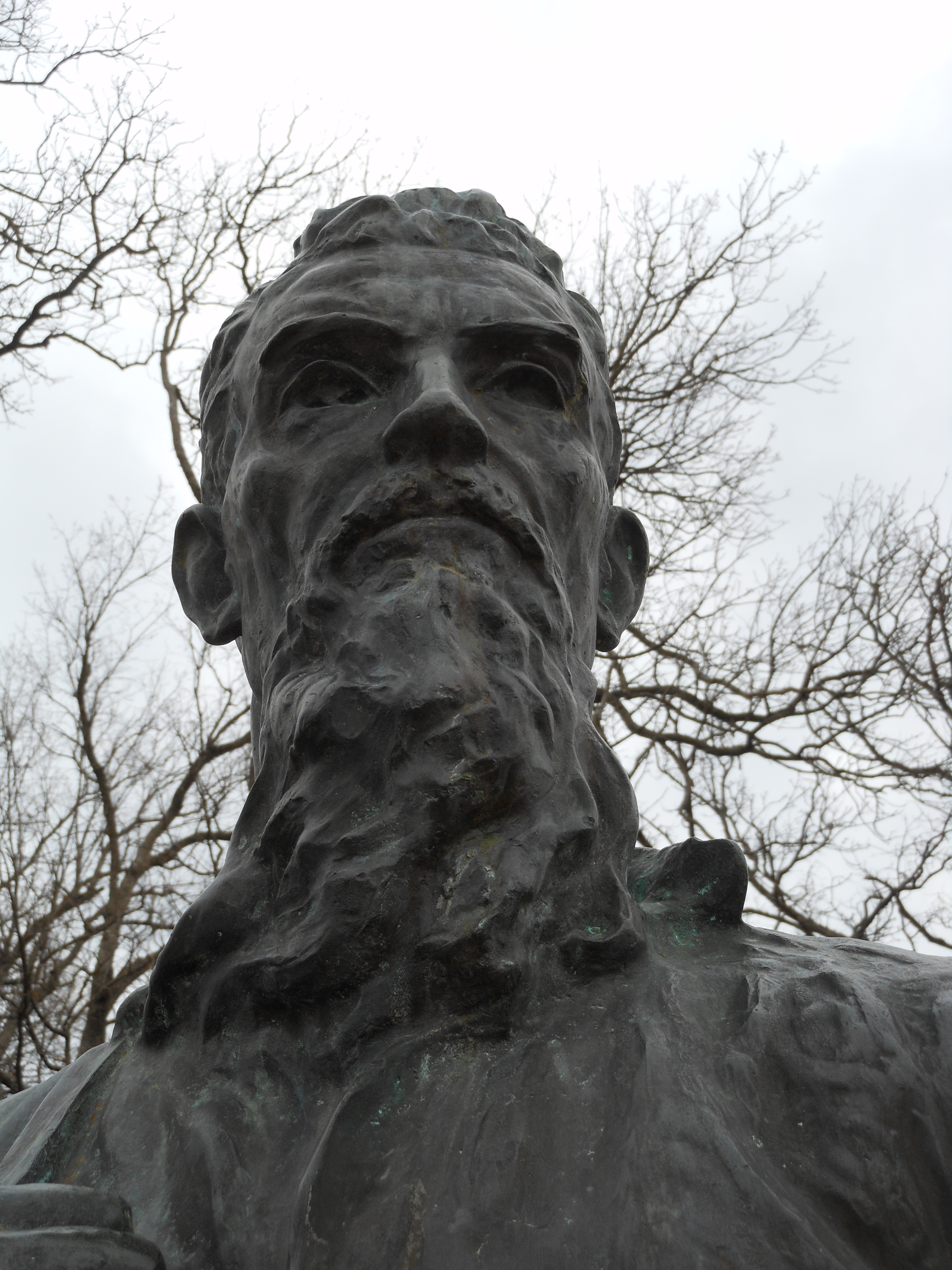 Statue of John Brown cast by the Borbedine Foundery in Paris, which made the Statue of Liberty